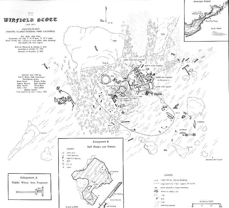 Scatter map of the wreckage of the steamship Winfield Scott. Image obtained from But as it was originally created by the US National Park Service, it is in the public domain.